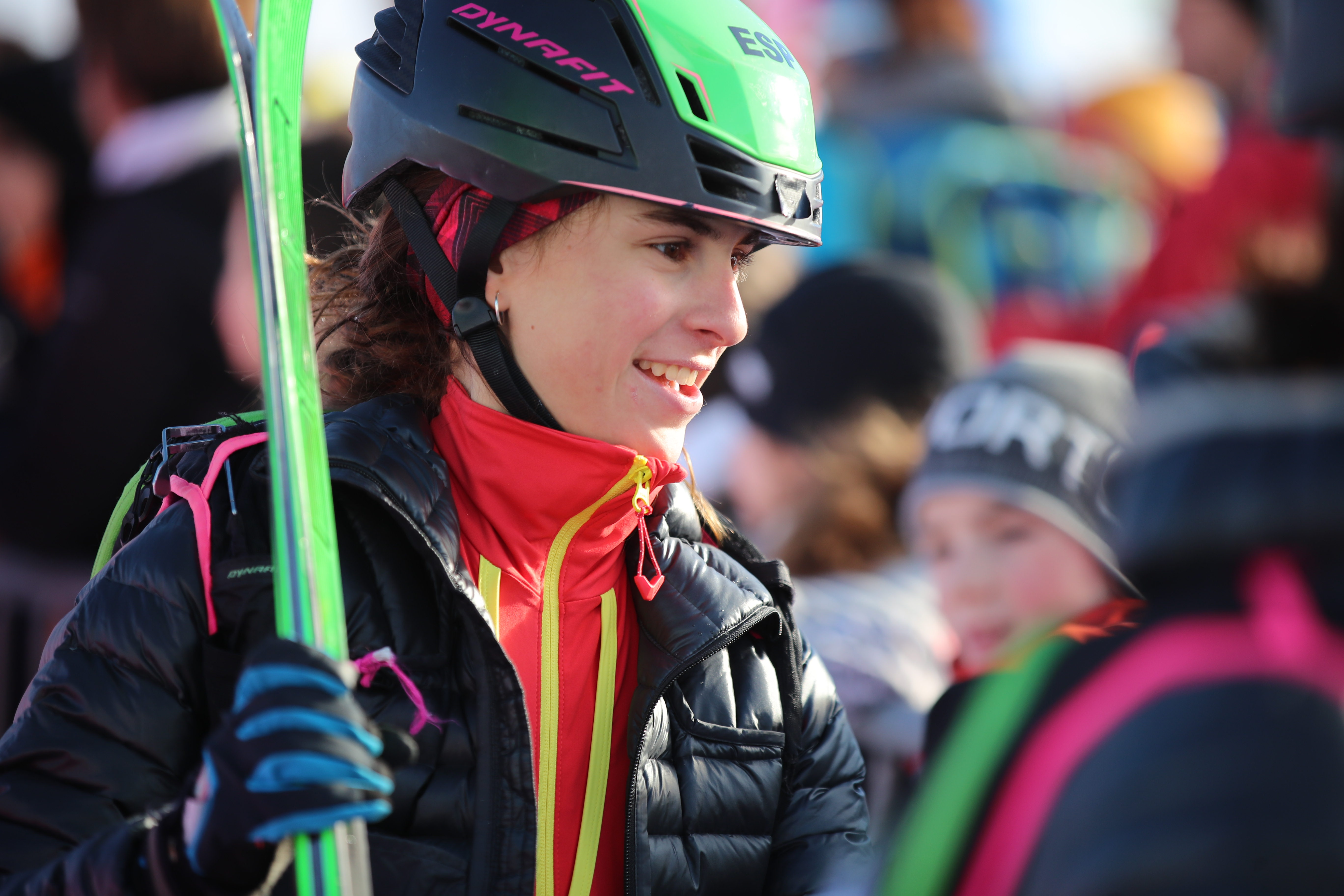 Mascot ceremony at the Ski mountaineering Mixed Relay at the 2020 Winter Youth Olympics in Lausanne